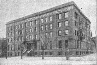 Rust Hall, Lucy Webb Hayes National Training School, Washington, D. C.